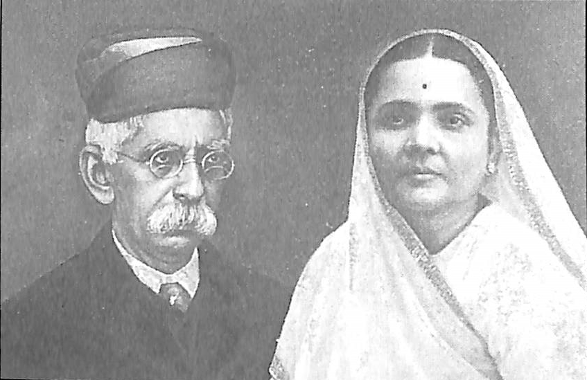 Sir Ramanbhai Nilkanth (1868-1928) and his wife Lady Vidyagauri Nilkanth (1876-1958)